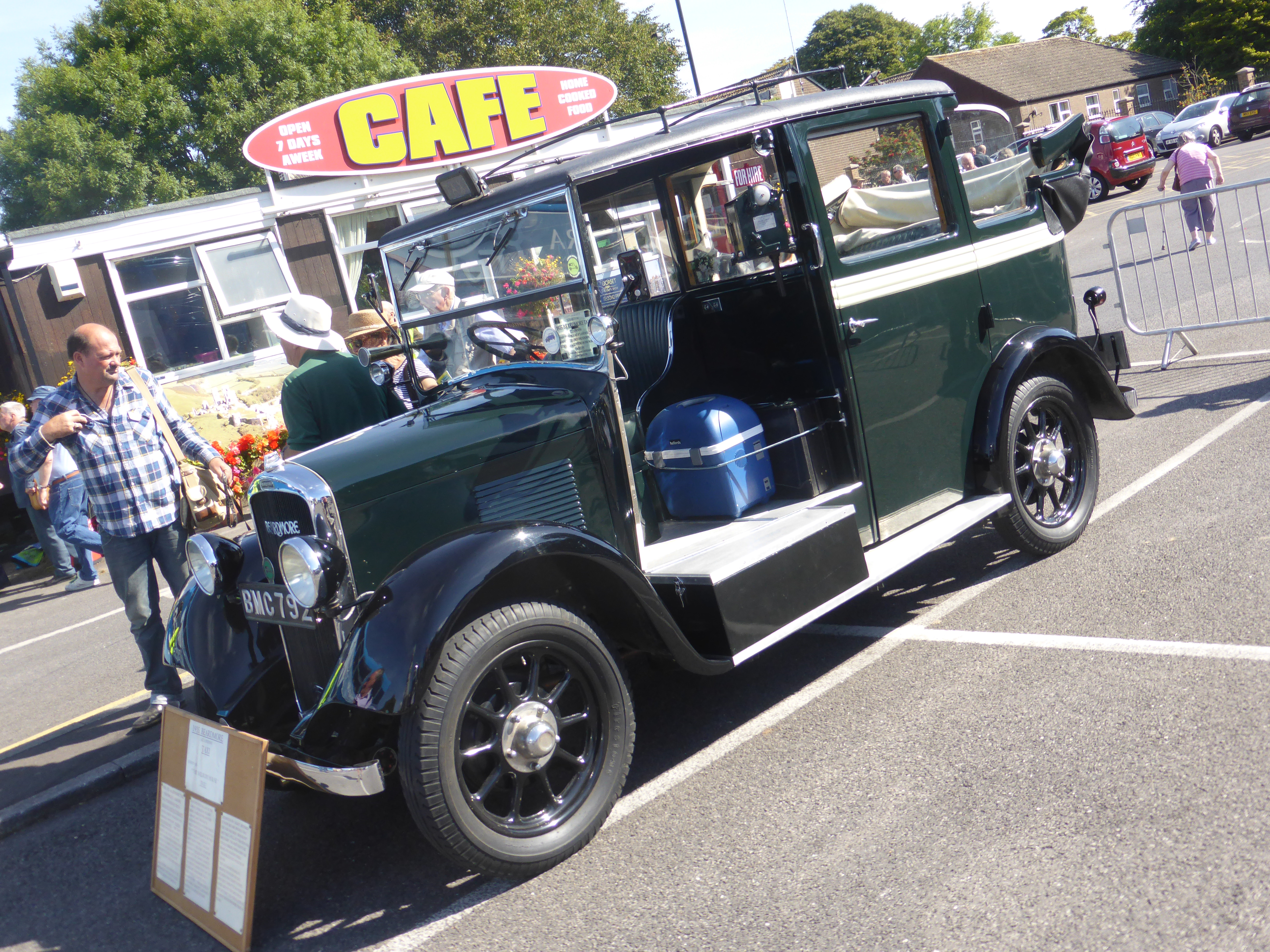 The West Country Historic Omnibus & Transport Trust (WHOTT) Running Day at Dorchester.